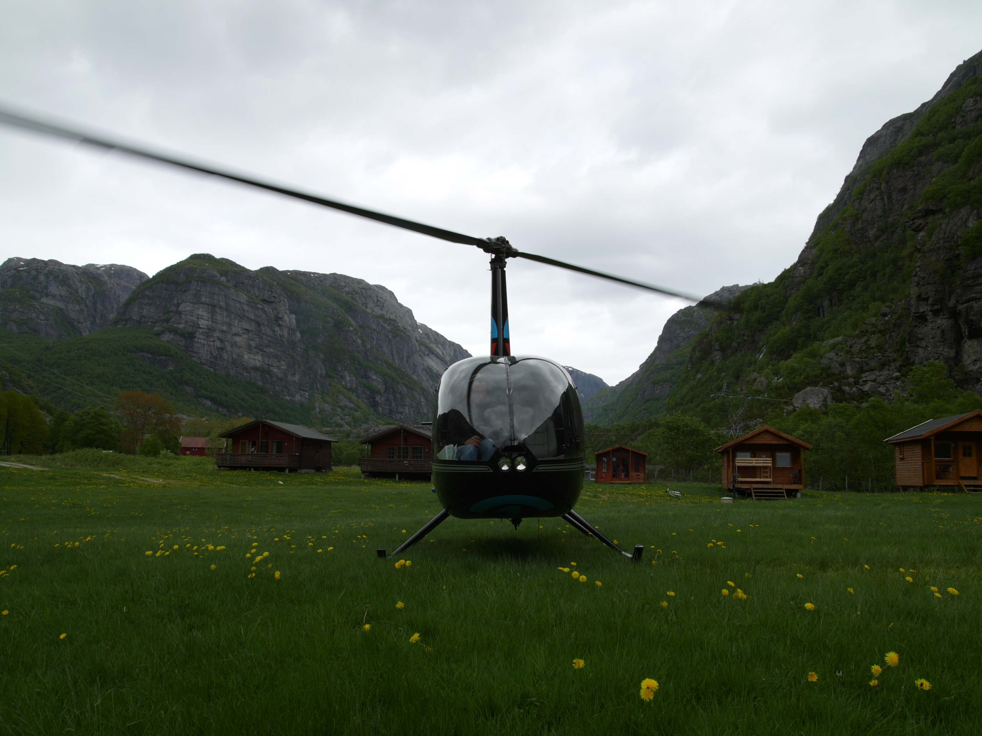 Helicopter (Robinson 44) in Lysebotn, Lysefjorden, Rogaland, Norway